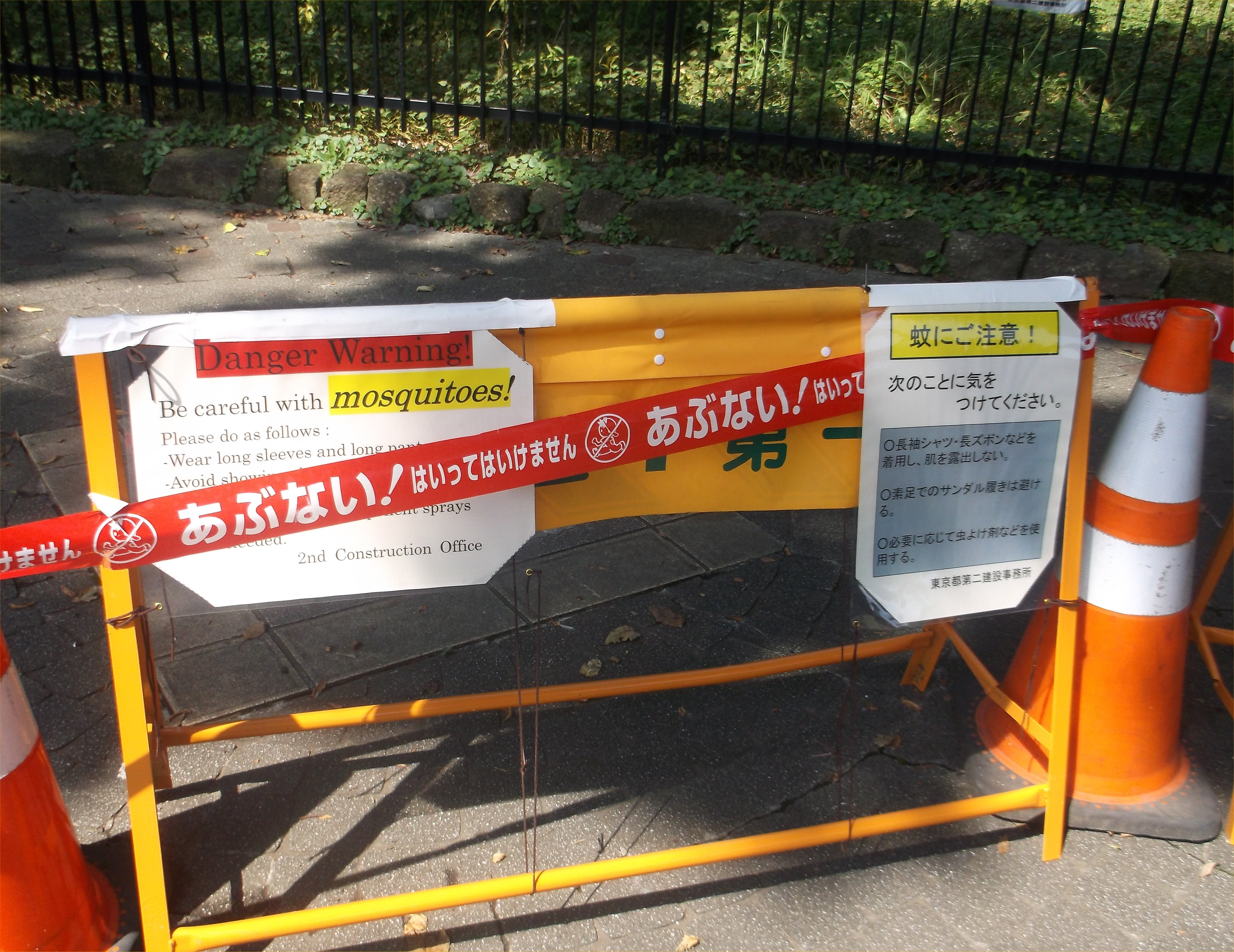 A photo of the notice of dengue fever at Yoyogi park,Shibuya-ku,Tokyo,Japan.